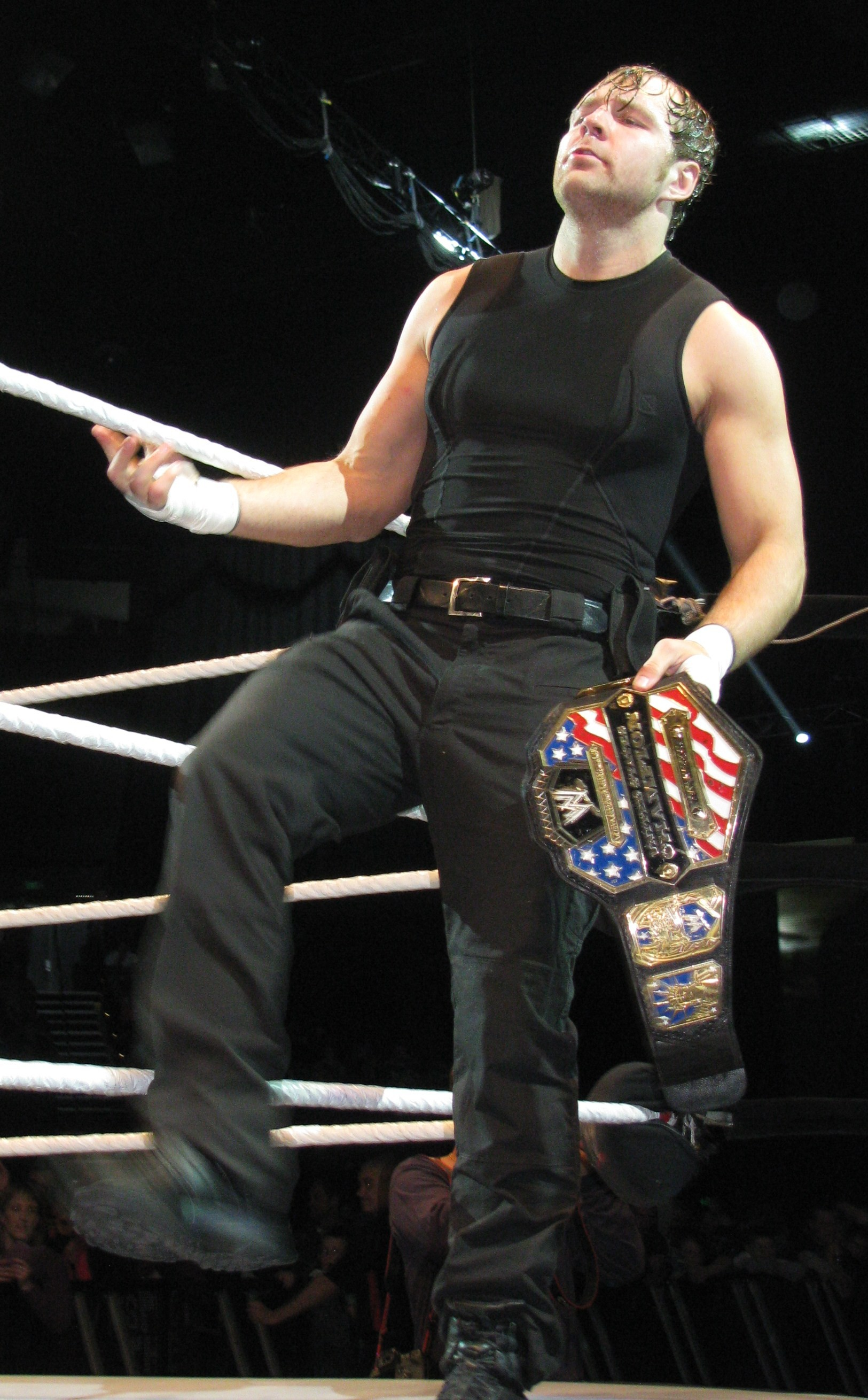 Dean Ambrose @ Adelaide, South Australia WWE house show on the 29th of July '13